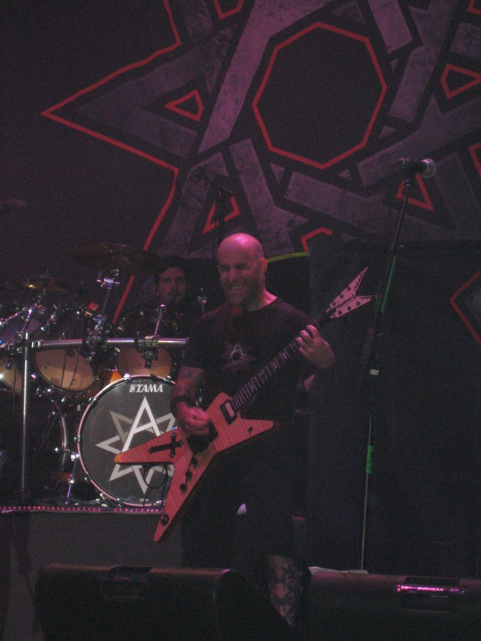 Anthrax guitarist, Scott Ian. -- Judas Priest Retribution 2005 Tour